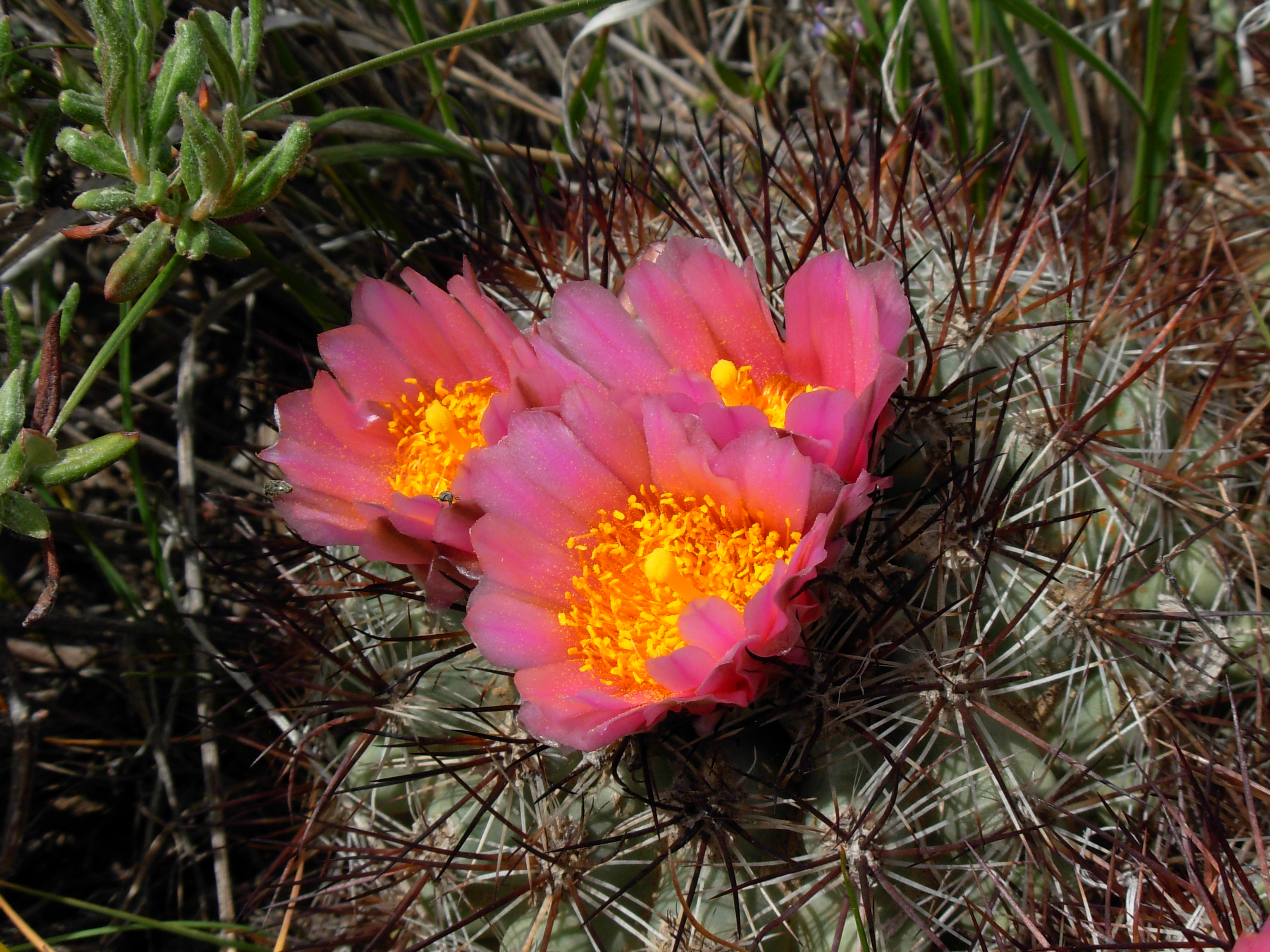 Pediocactus simpsonii Cactaceae Mountain Ball Cactus Simpson’s footcactus, Simpon’s hedgehog cactus Kingdom: Plantae Division: Magnoliophyta Class: Magnoliopsida Order: Caryophyllales Family: Cactaceae Whiskey Dick mountain area sagebrush shrub-steppe Kittitas County, Washington, USA elevation ~ 1050 meters, 3500 feet Pediocactus, Echinocereus and Echinopsis species are often called Hedgehog cactus, after the Hedgehog i042907 349